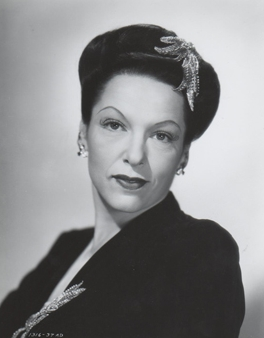 Promotional photograph of actor Gale Sondergaard (1940s)